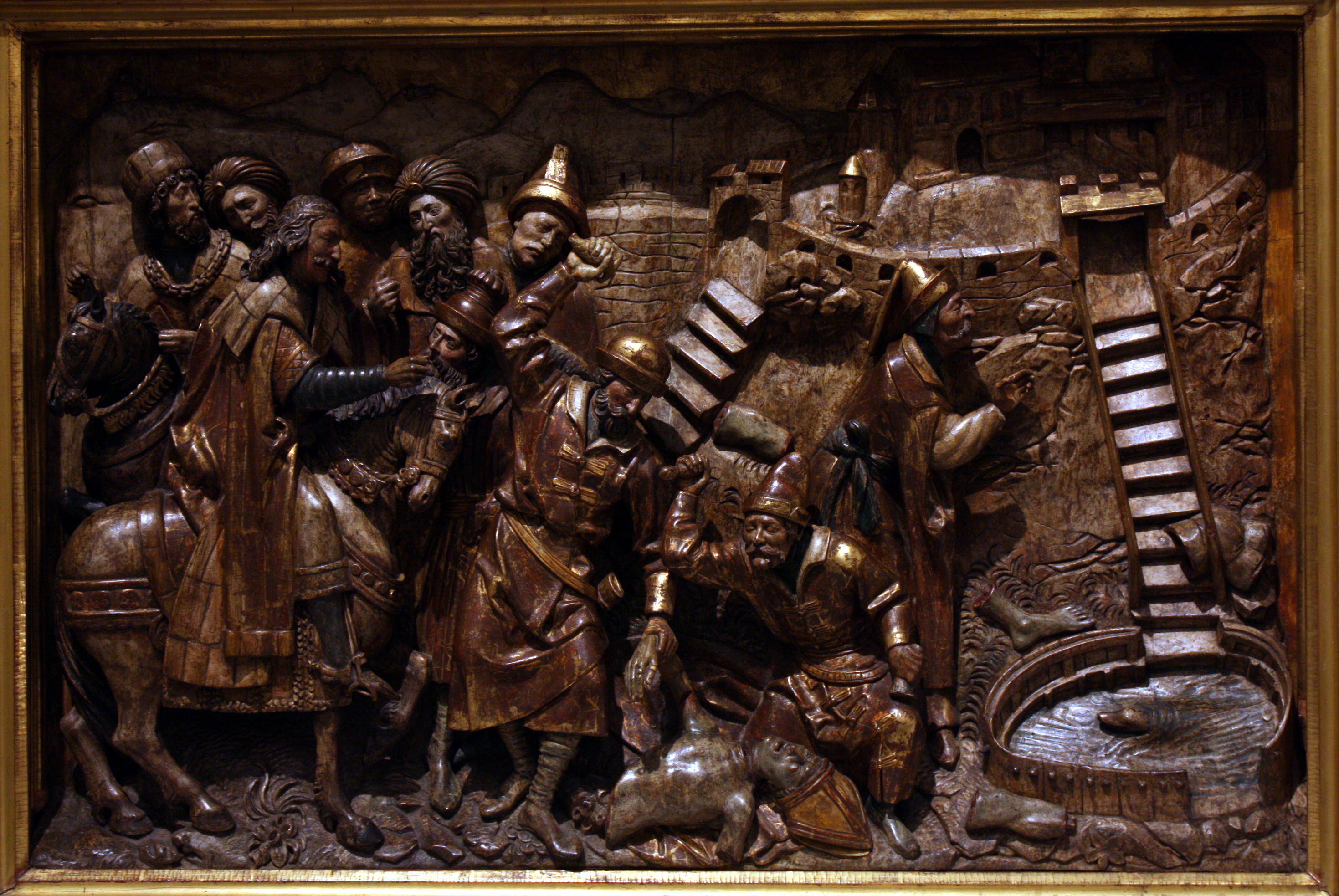 Gothic-Renaissance Triptych from Pławno (Łódź voivodship, Poland), nowadays in National Museum in Warshau